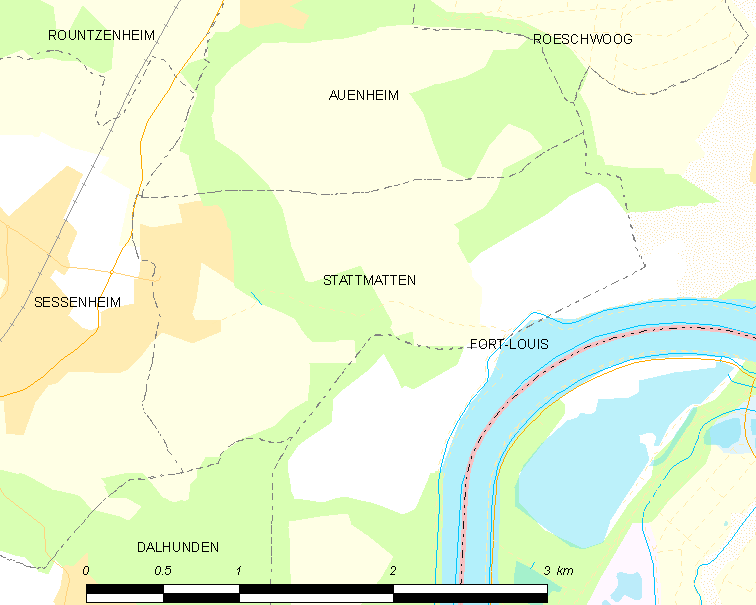 Map of French municipality